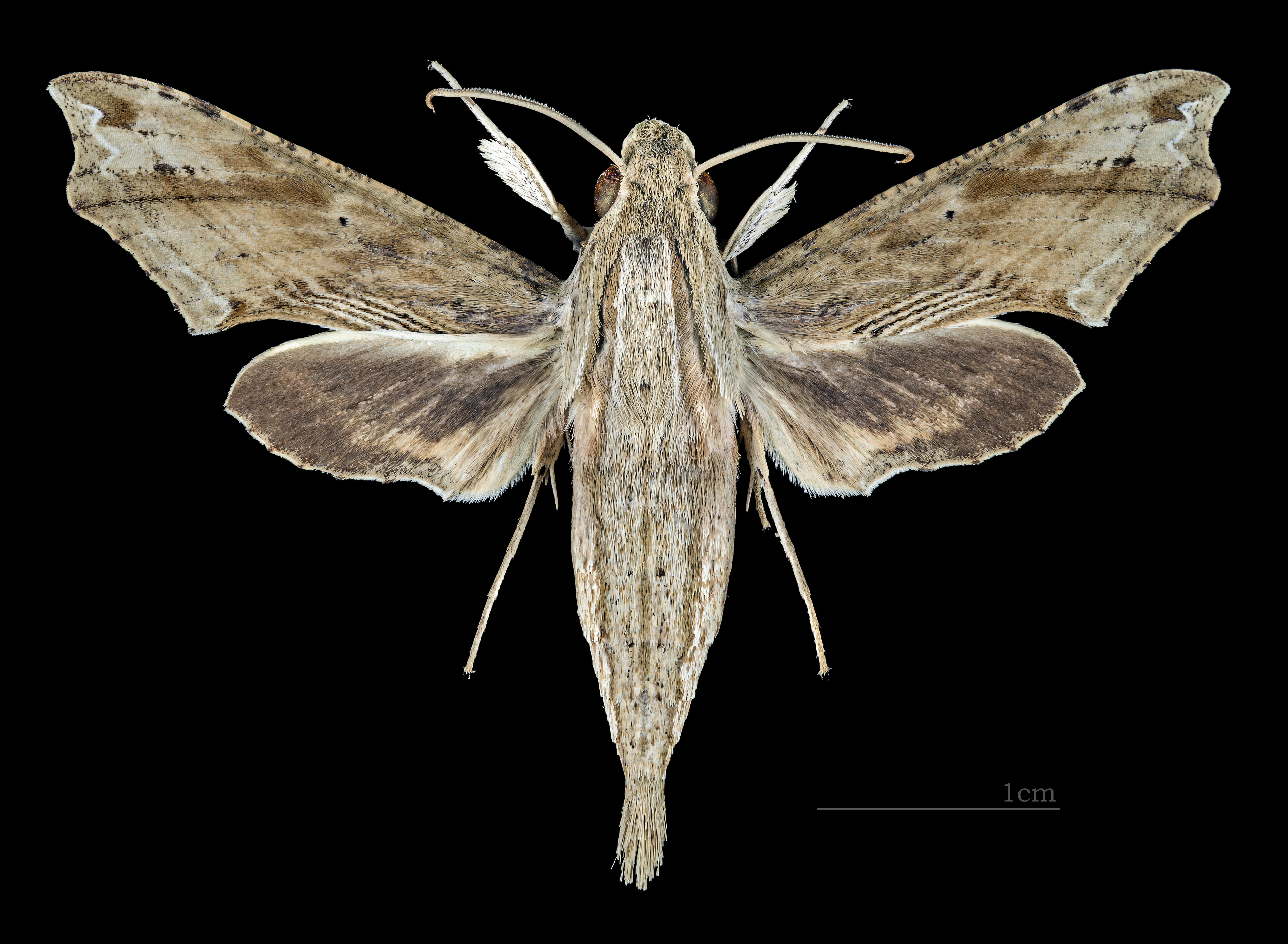 Eupanacra malayana - Dorsal side Collection of the Mathematician Laurent Schwartz